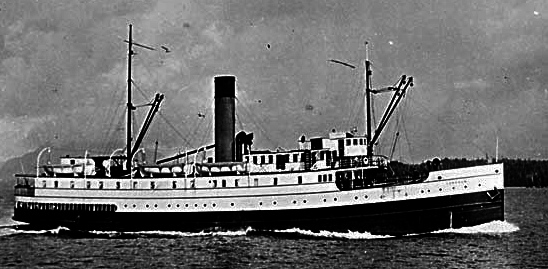 Camosun, a steamship built in 1905, photographed circa 1930.